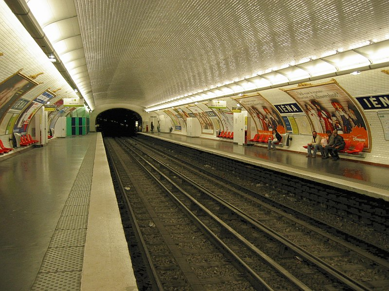 Paris Métro, station Iéna (line 9)